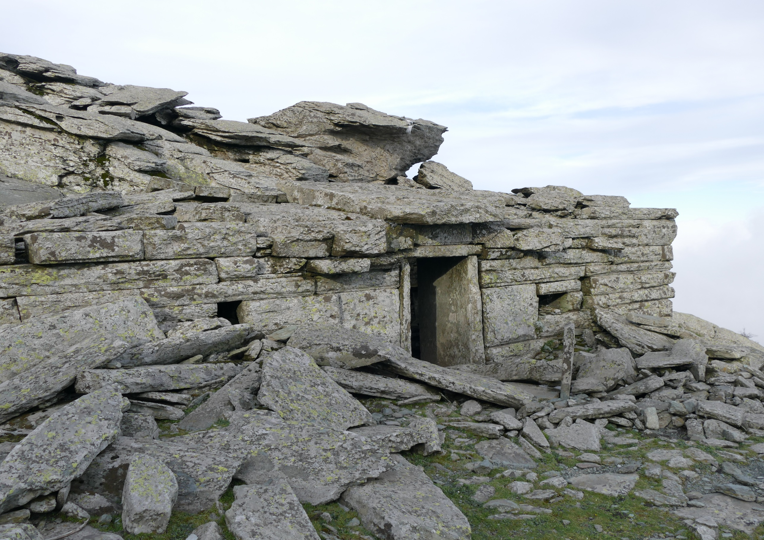 Ochi Dragon-house: Southern front